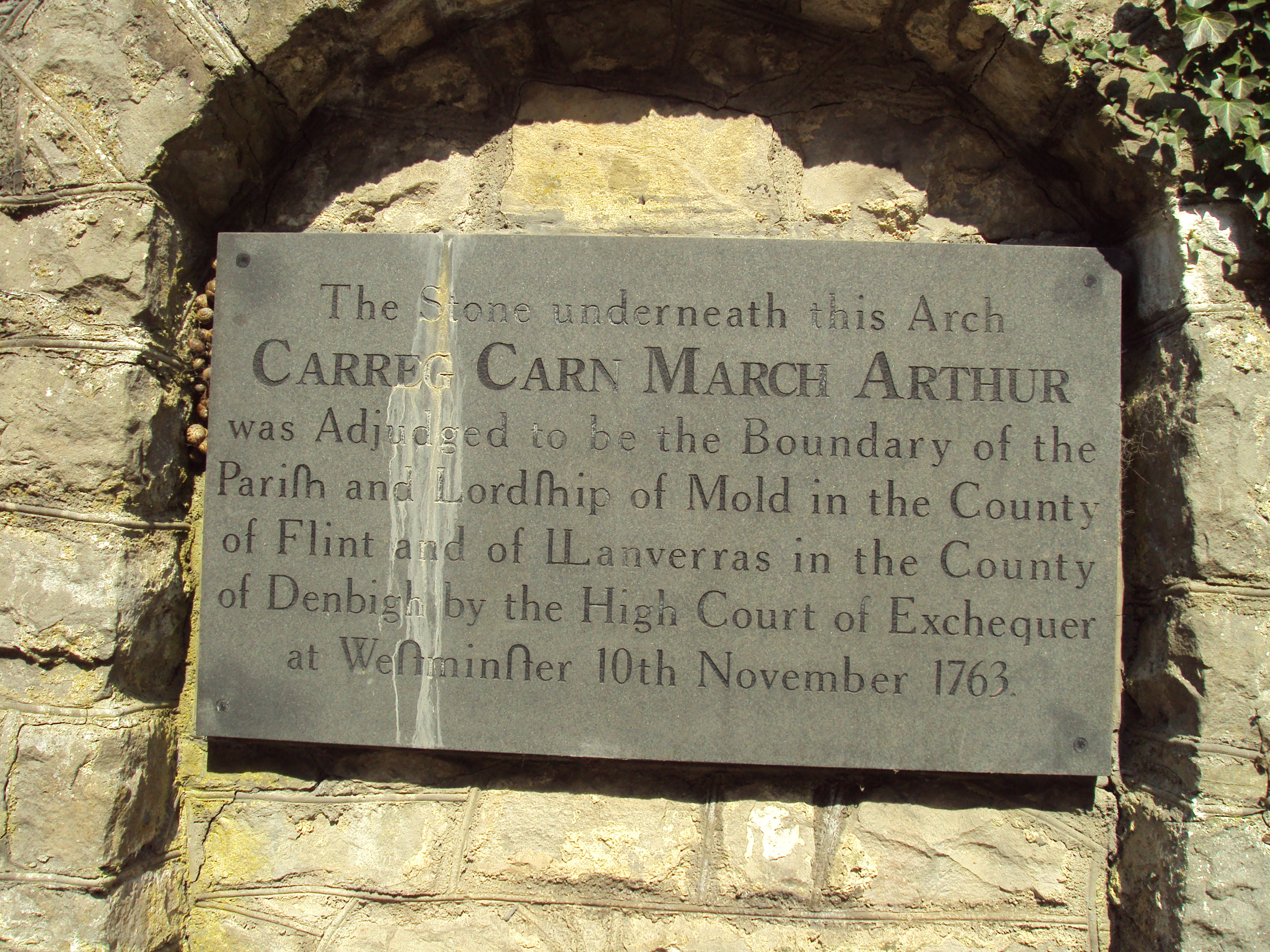 Carreg Carn March Arthur on the A494 road, marking the boundary between the lordships of Mold, Flintshire and Llanferres, Denbighshire, North Wales.